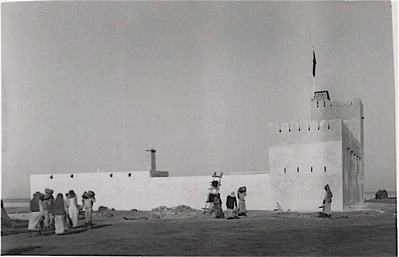 The photographs accompany a statement and evidence submitted to the British Government by the Government of Bahrain in 1938 relating to Bahrain's claim to sovereignty over the Hawar Islands